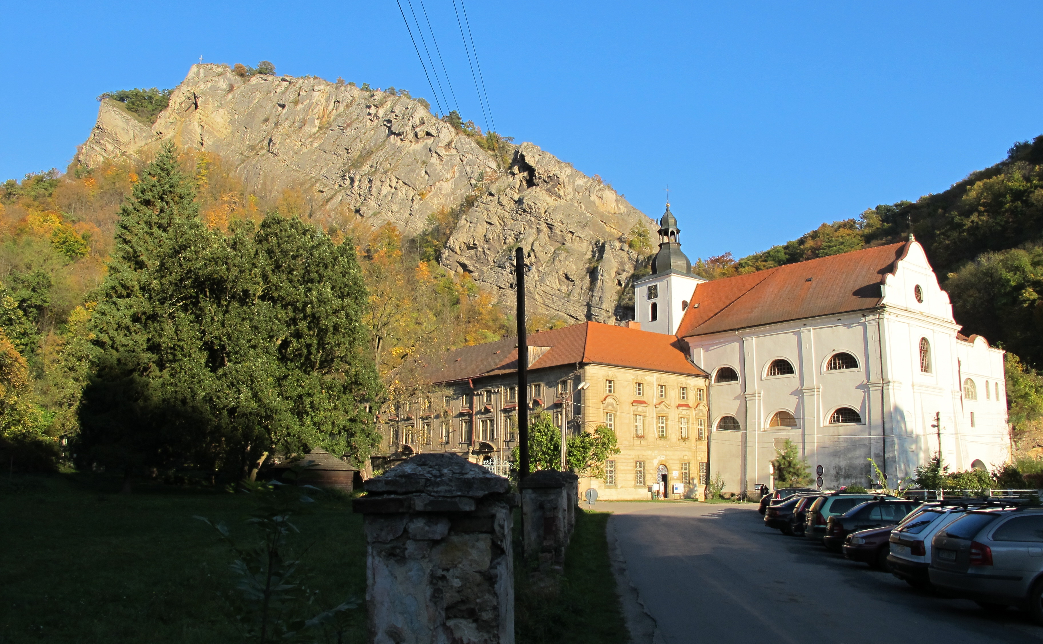 A monastery and the rock in Svatý Jan pod Skalou, Beroun District